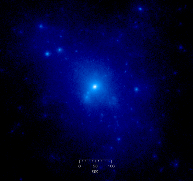 Projected density plot of a redshift z = 2.5 {\displaystyle z=2.5} dark matter halo from a cosmological N-body simulation. The visible part of the galaxy (not shown in the image) lies at the dense centre of the halo and has a diameter of roughly 20 kiloparsecs. There are also many satellite galaxies, each with its own subhalo which is visible as a region of high dark matter density in the image.